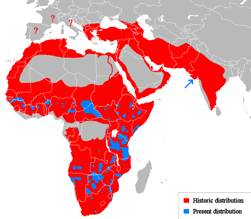 Geographical distribution of lions. Red (and blue) shows areas historically inhabited, blue shows areas currently inhabited.